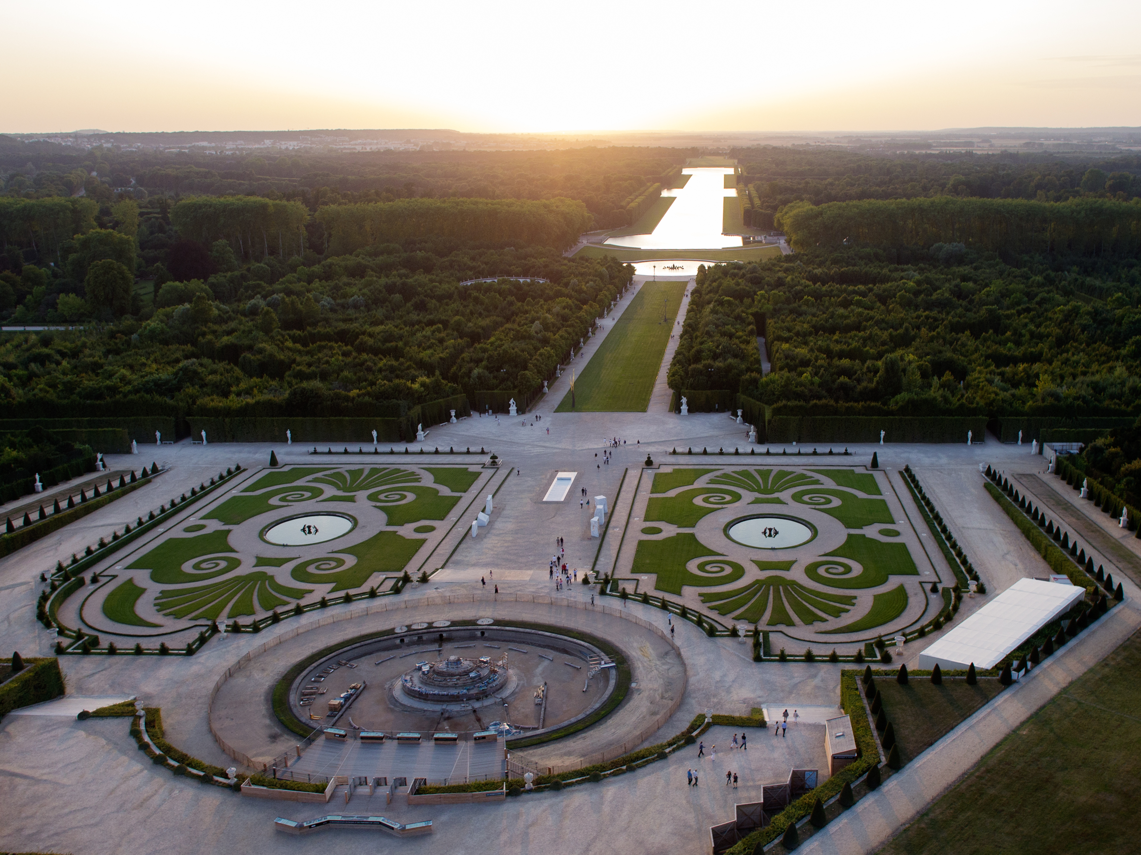 Aerial view of the Domain of Versailles, France